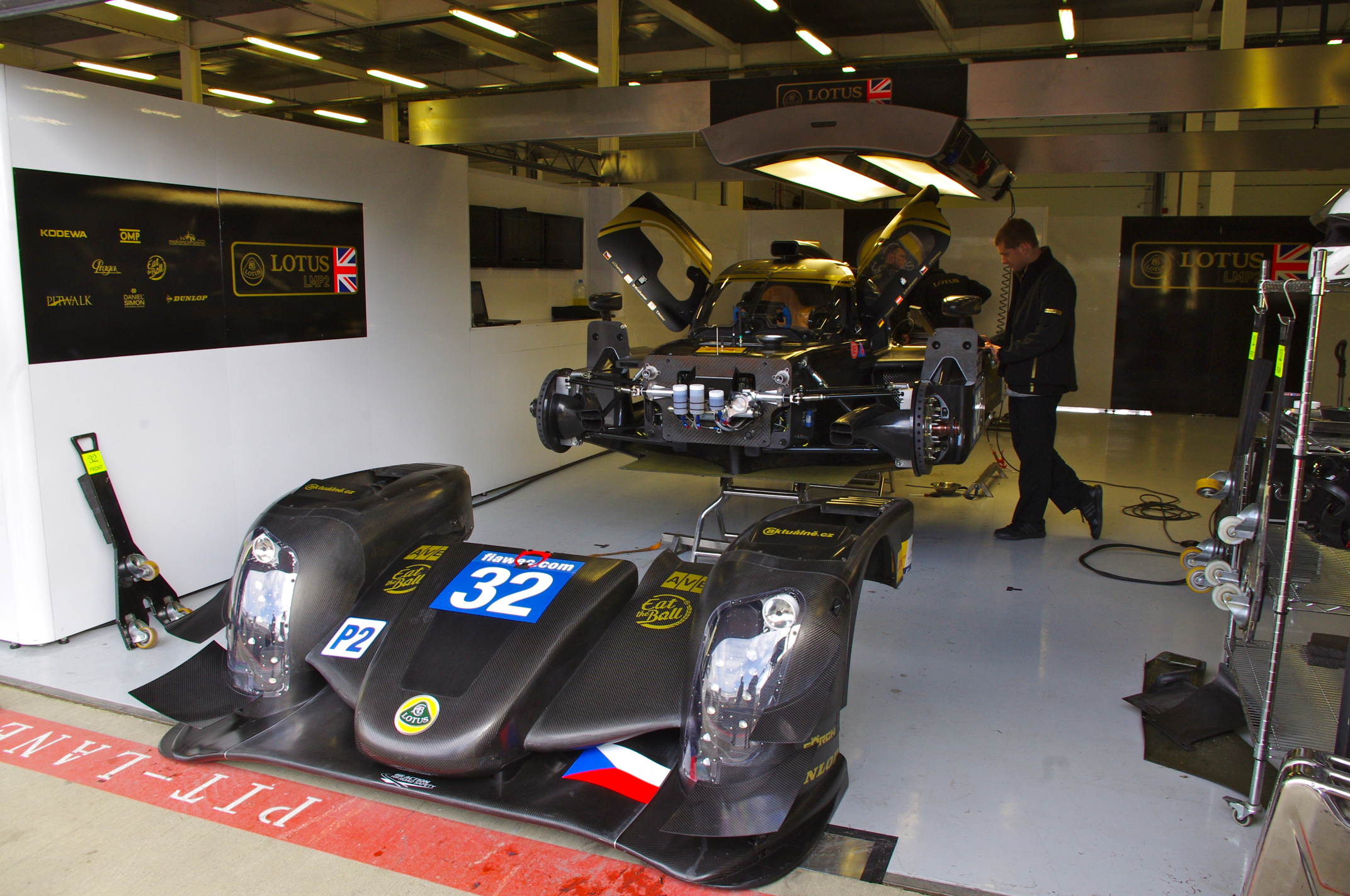 Silverstone 6 Hours 2013 FIA World Endurance Championship (WEC)